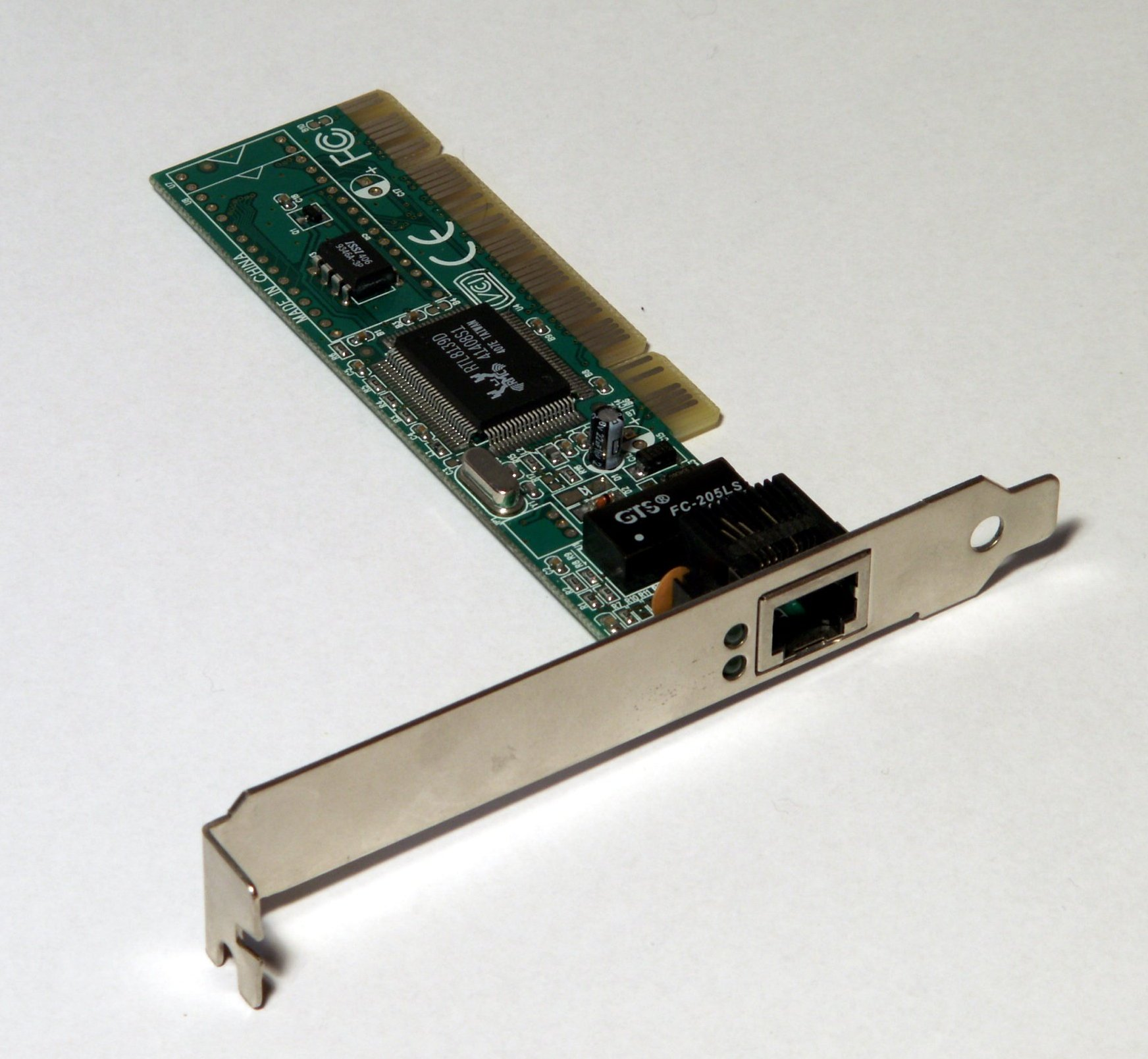 Ethernet PCI card with 2 leds